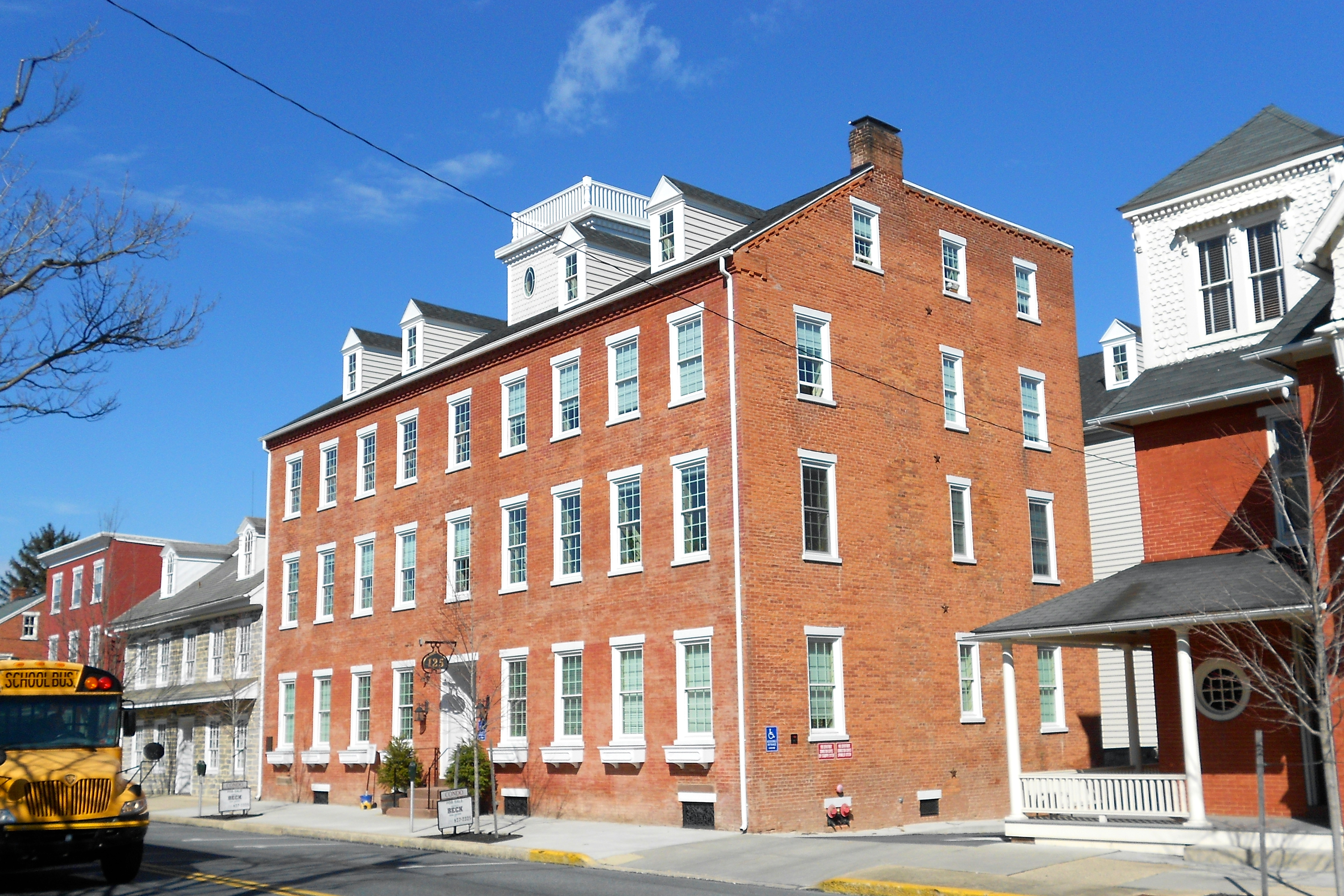 125 E. Main Street, Lititz, Lancaster County, Pennsylvania. Oldest building in town. In the Litiz Moravian Historic District.